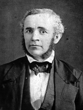 Deguerrotype of Michael Tuomey by Eugene Smith, published in Smith, Eugene Allen (October 1897) "Sketch of the Life of Michael Tuomey". American Geologist. Vol. 20, p. 207. The original is held at the W.S. Hoole Special Collections Library at the University of Alabama, and was obtained via the Encyclopedia of Alabama (link)